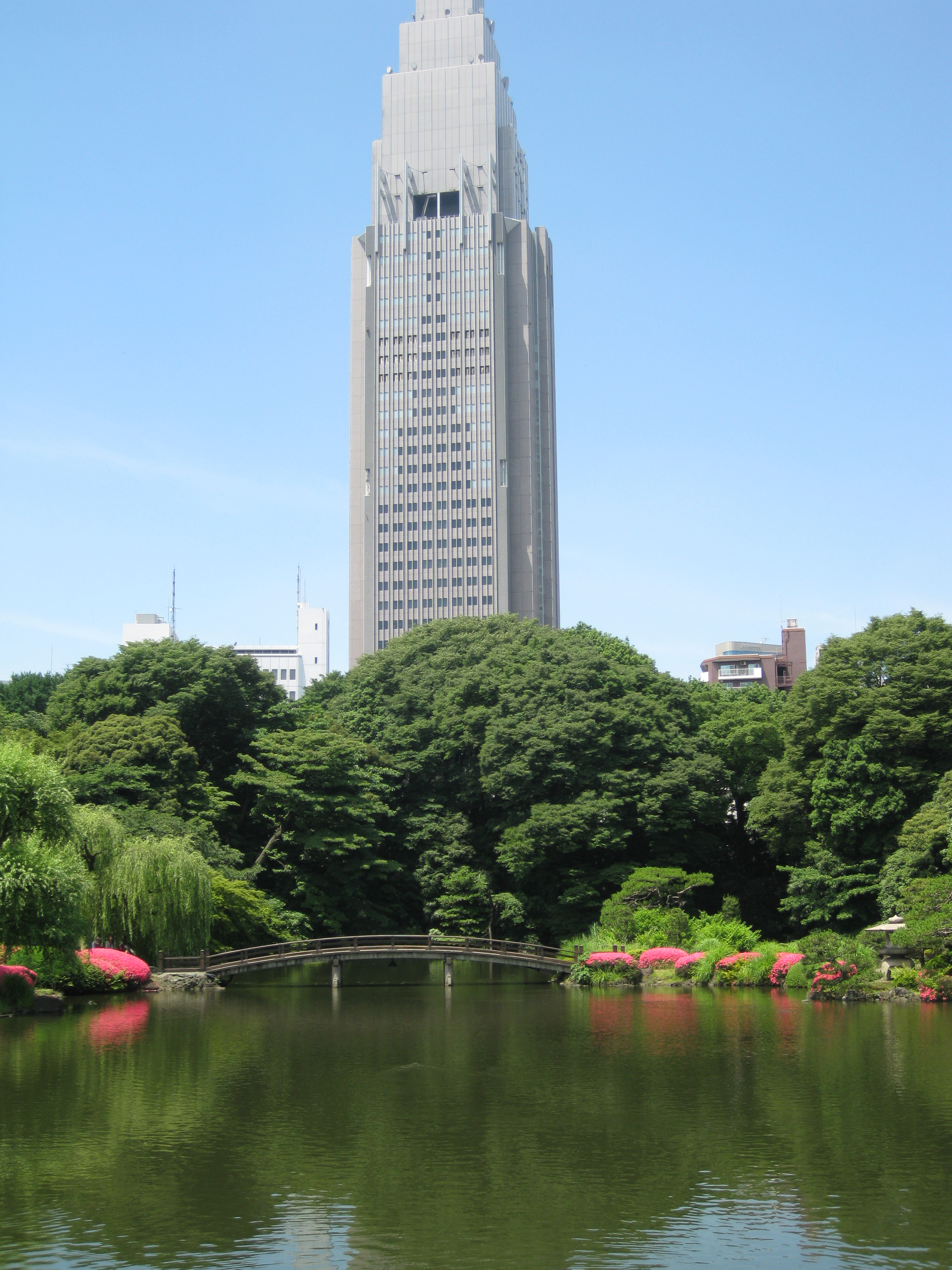 Impression of Shinjuku Gyoen, Tokyo